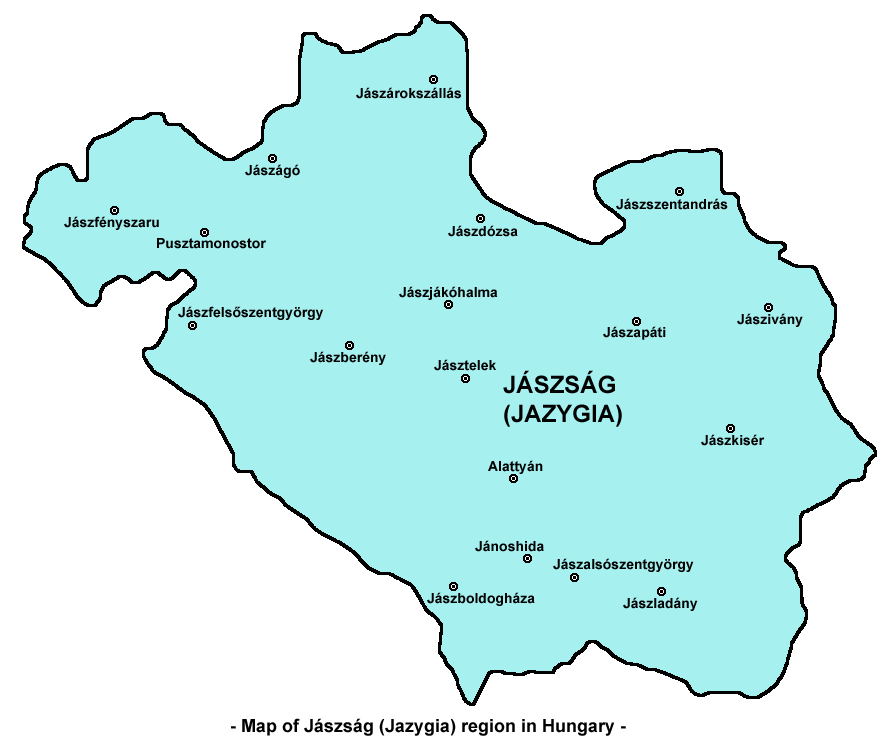 Map of Jászság (Jazygia) region in Hungary. References Made according to these maps